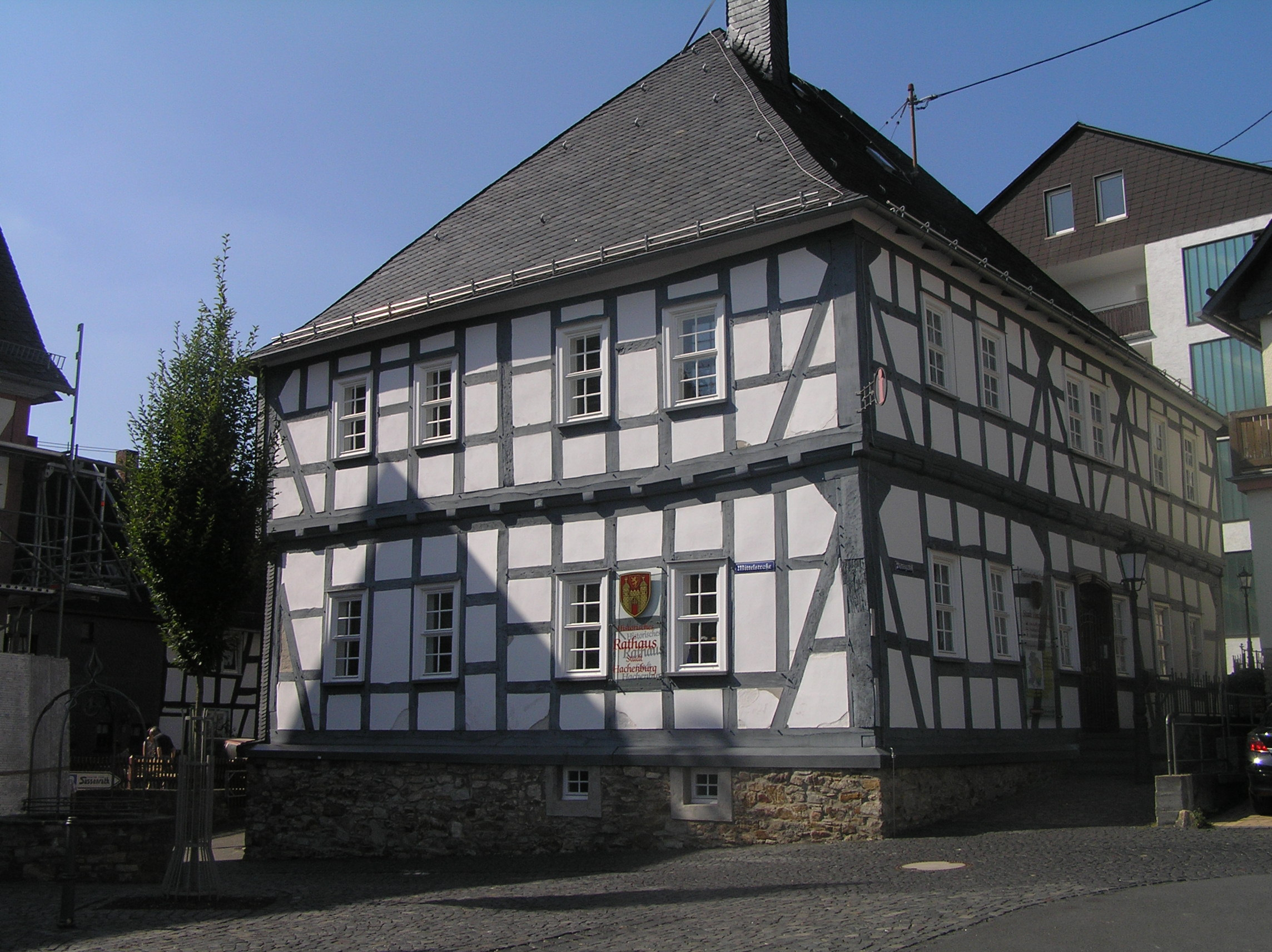 Historic town hall in Hachenburg, Germany